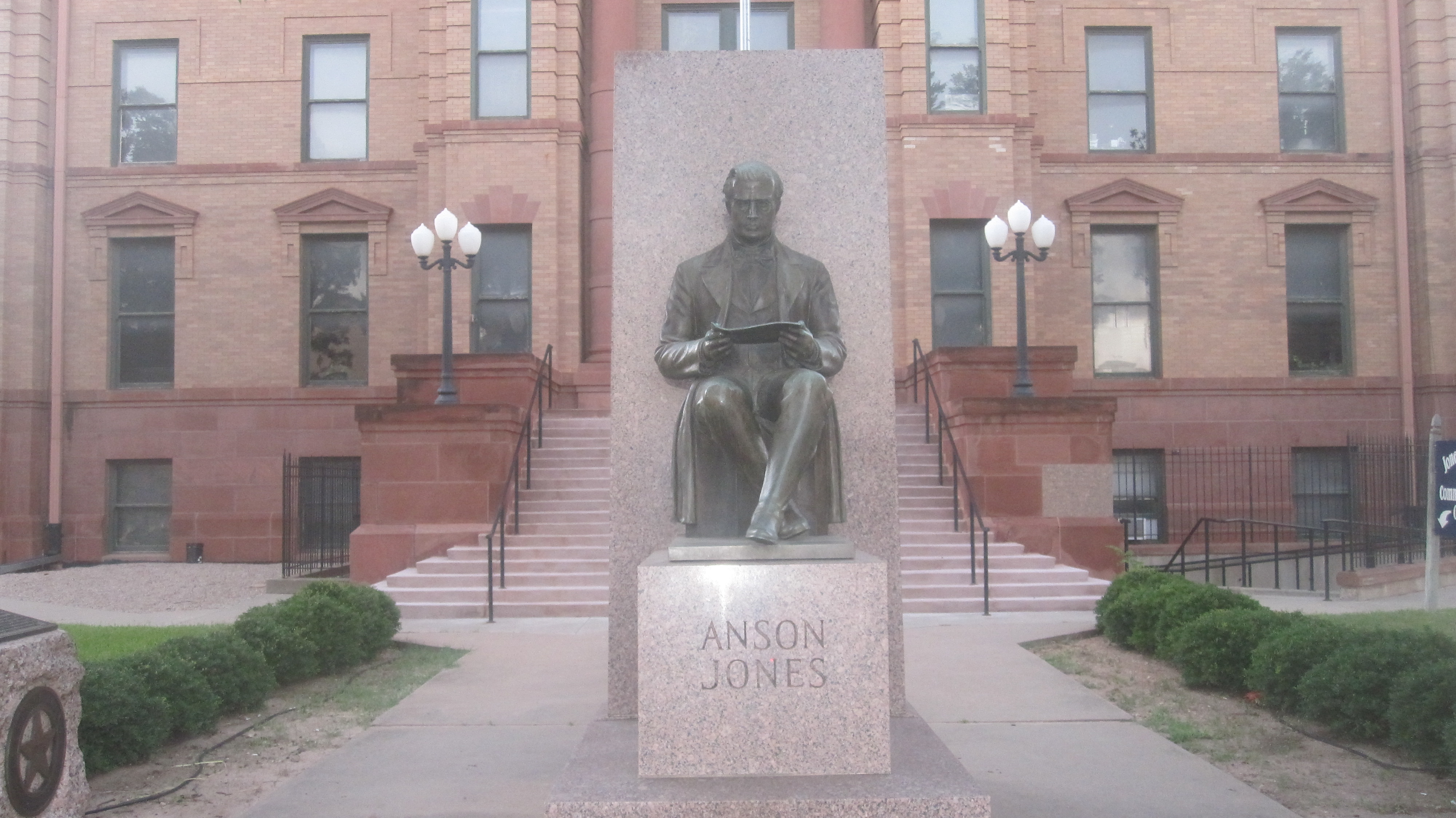 Memorial to Anson Jones at south entrance to Jones County Courthouse, Anson, Texas, United States, Enrico Cerracchoi, sculptor, 1937. I took photo with Canon camera in Anson, TX.